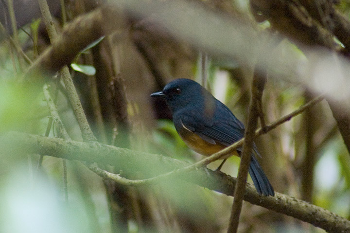 A White-Bellied Shortwing, northern race. Ooty, The Nilgiris, Tamilnadu, India